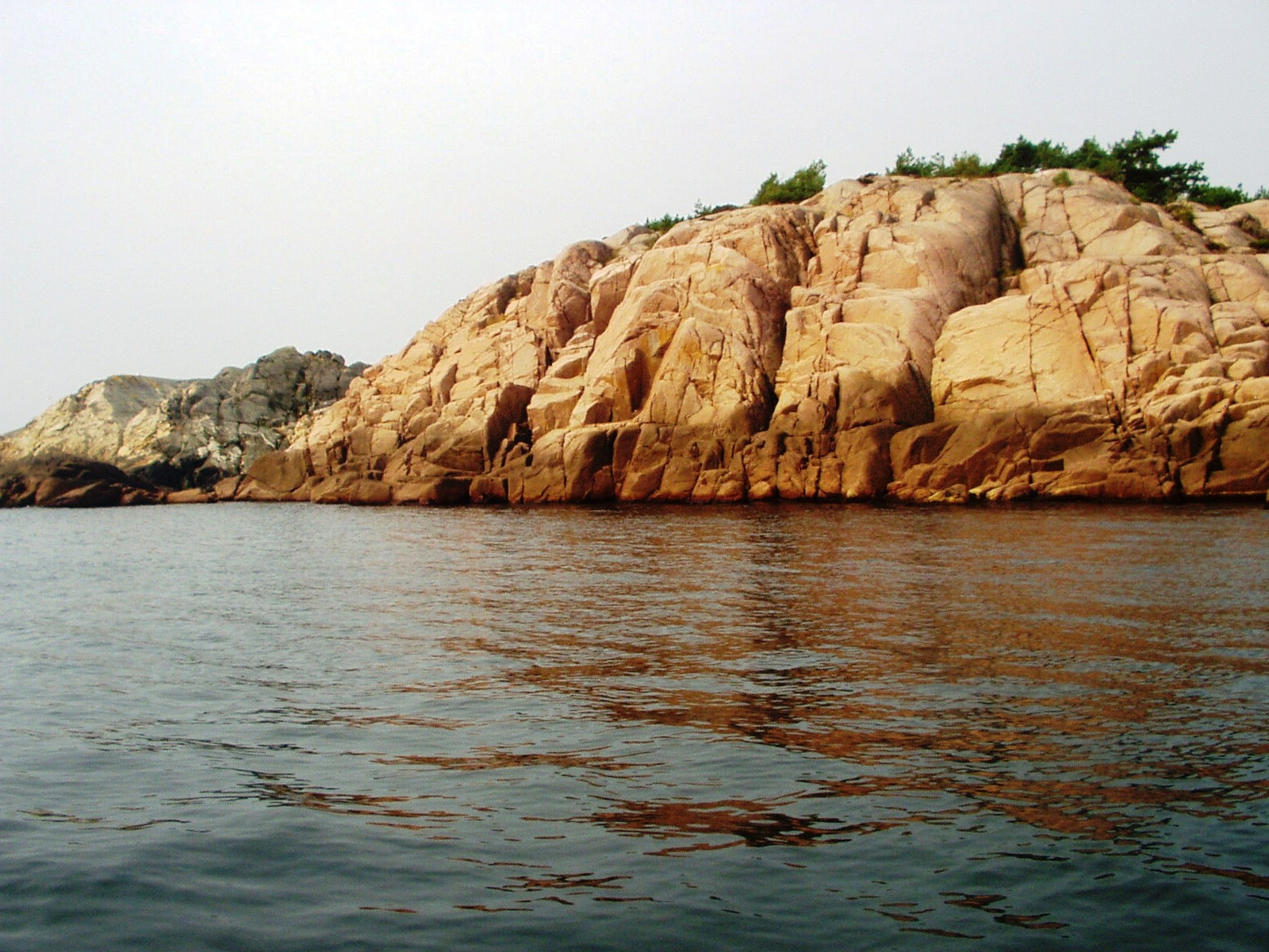 Vaholmen